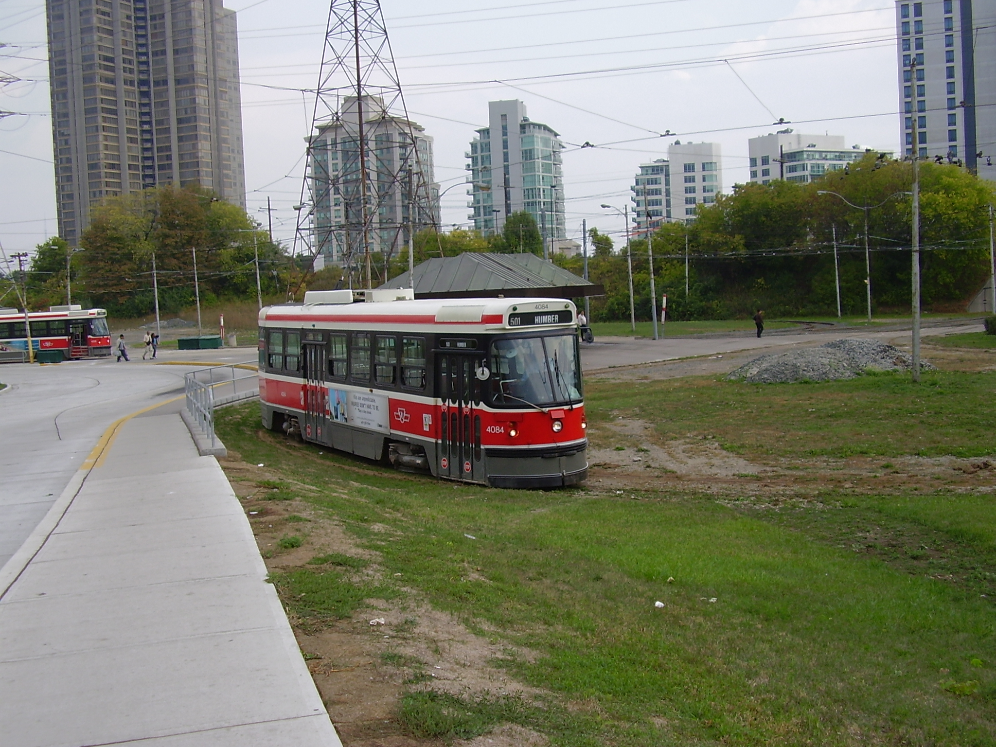 CLRV #4084 is turning around in the Long Branch side of Humber Loop as it turns back for Long Branch Loop.